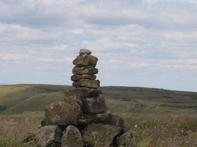 High Stones, Sheffield, near the border with Derbyshire. The highest point within the boundaries of Sheffield at 548m above sea level.